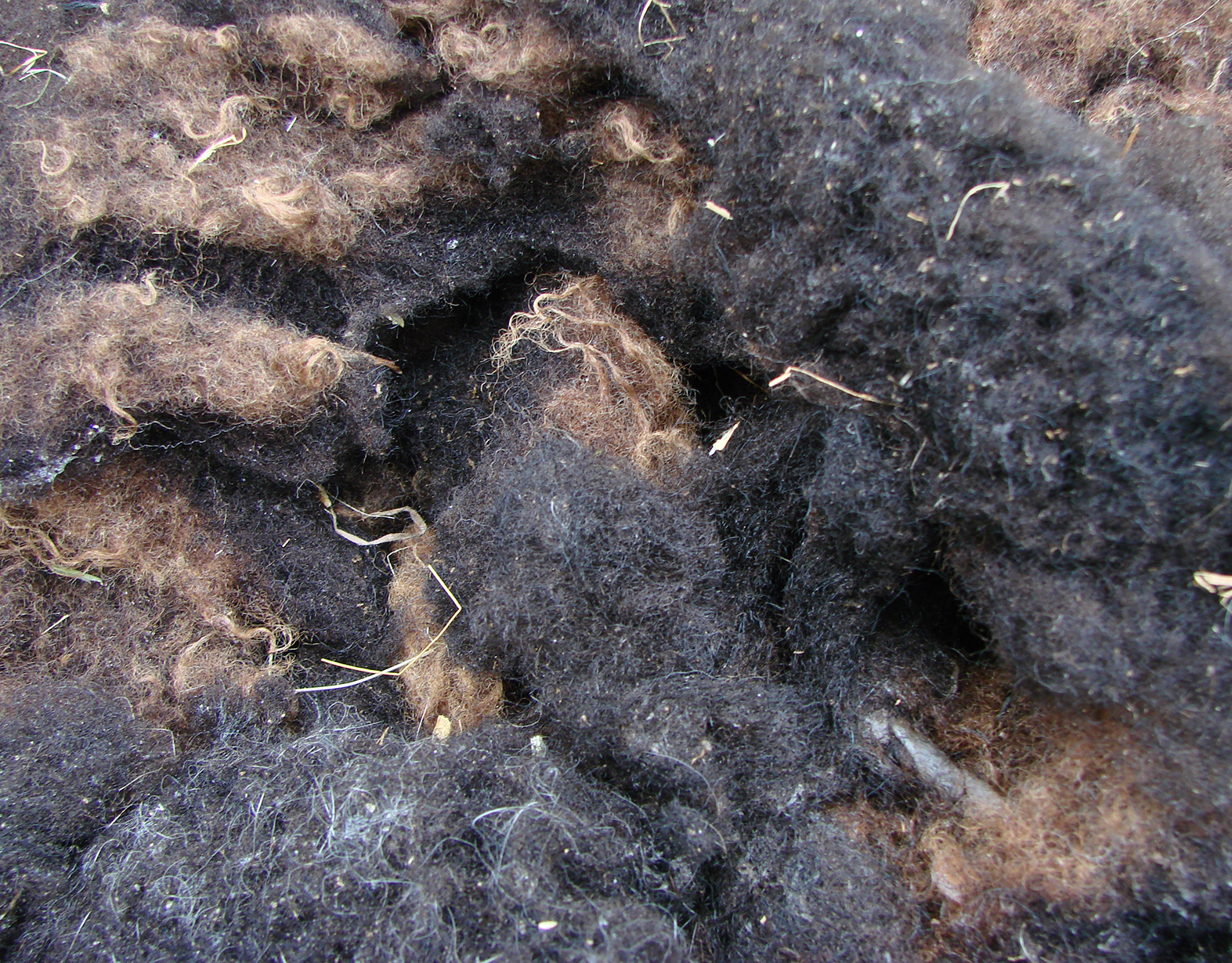 Rough wool.